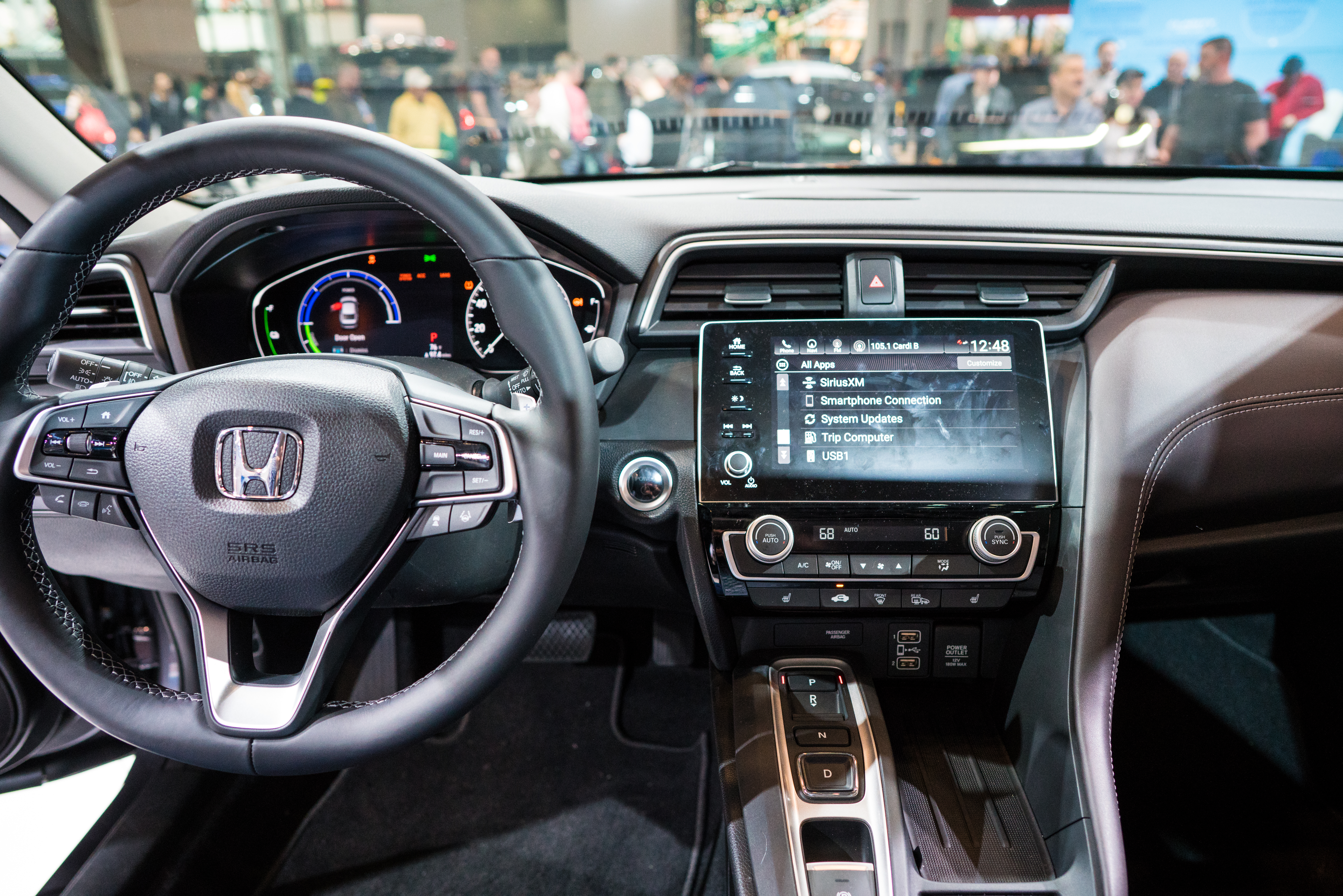 Honda Insight at the New York International Auto Show NYIAS